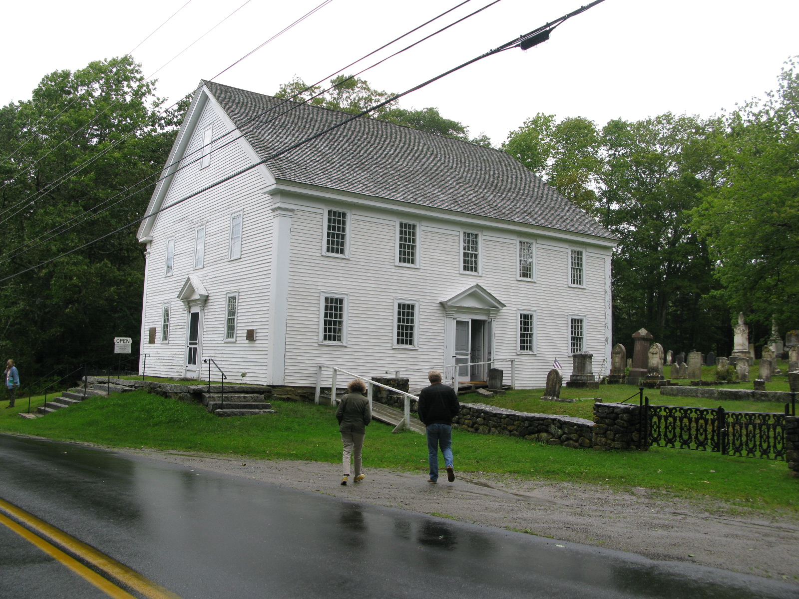 Exterior of the 1772 Harrington Meeting House (restored 1960-70)